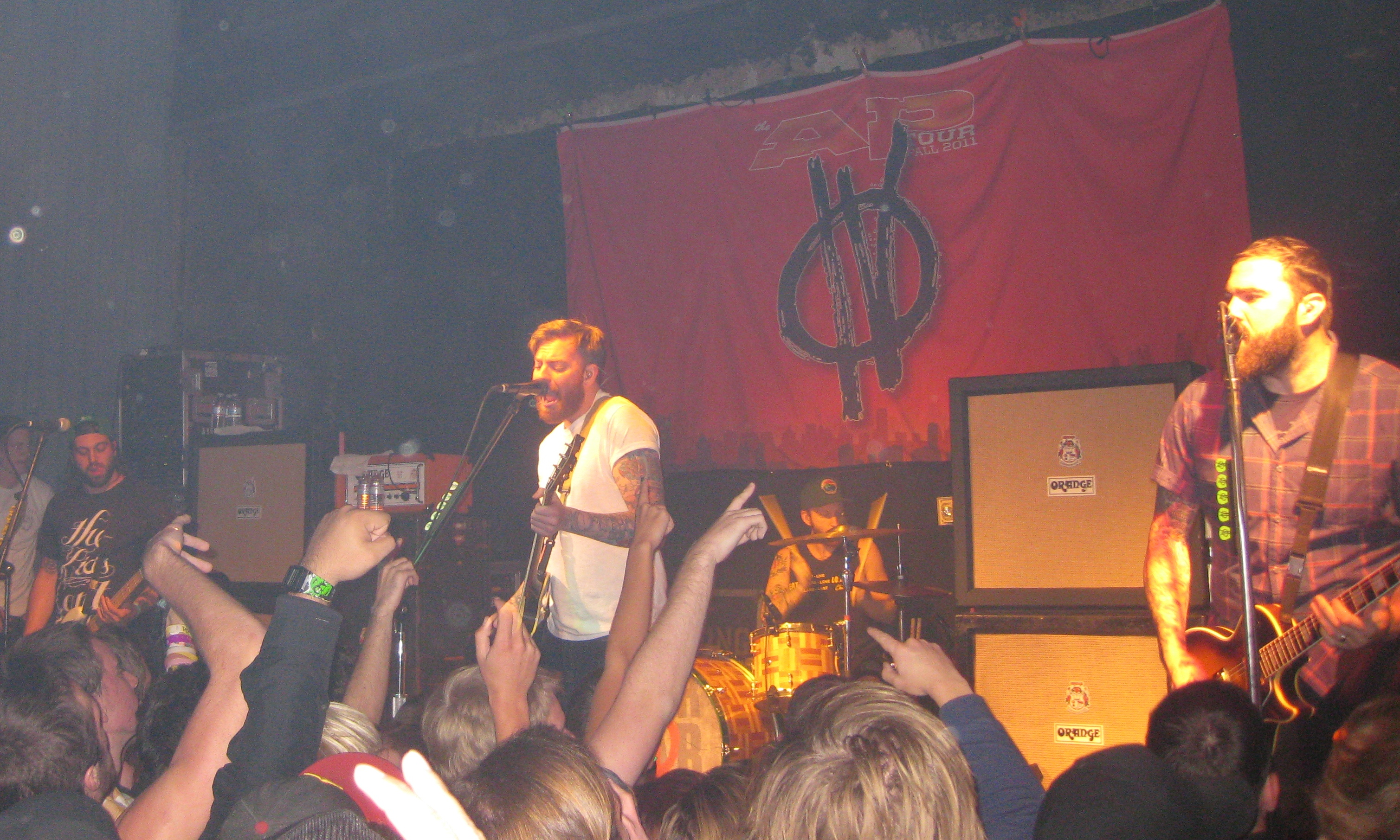 Four Year Strong performing on November 6, 2011 at Soma in San Diego, California as part of The AP Tour Fall 2011. Left to right: bassist/backing vocalit Joe Weiss, guitarist/vocalist Alan Day, drummer Jackson Massucco, and guitarist/lead vocalist Dan O'Connor.